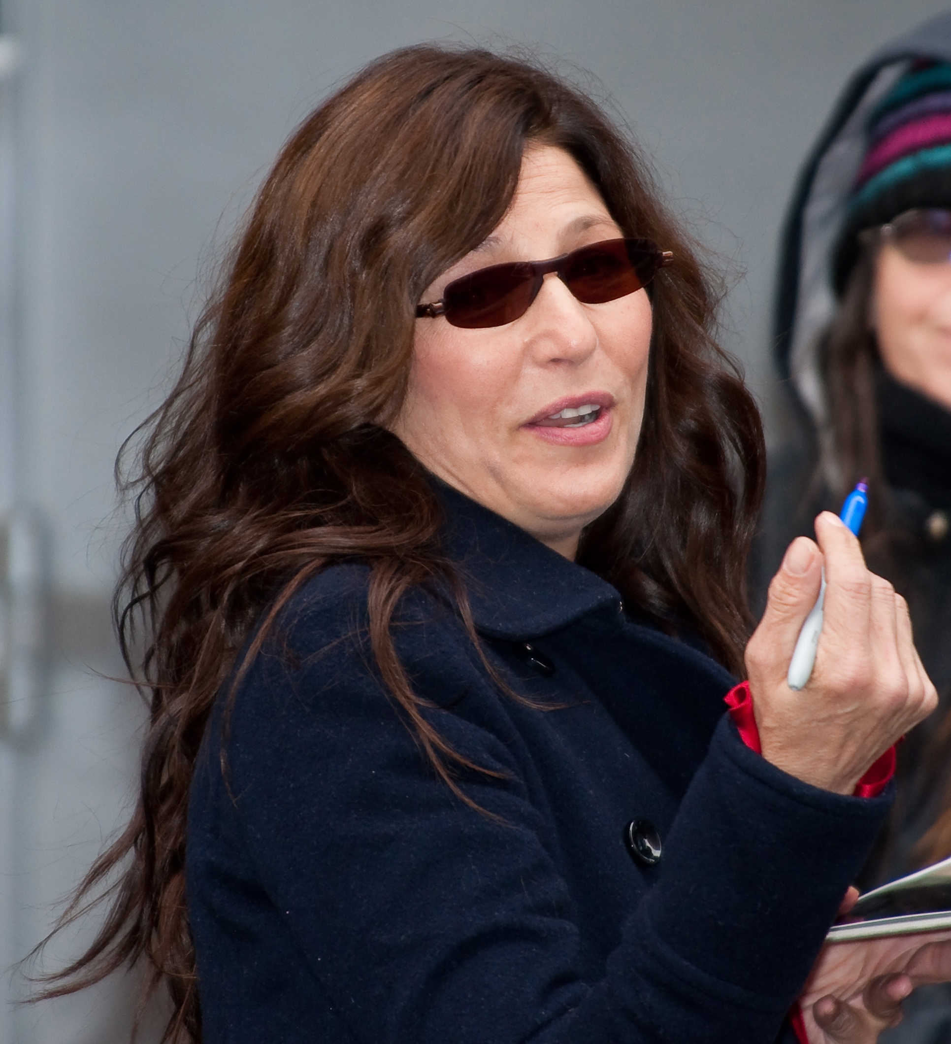 Actress Catherine Keener leaving the press conference for Please Give